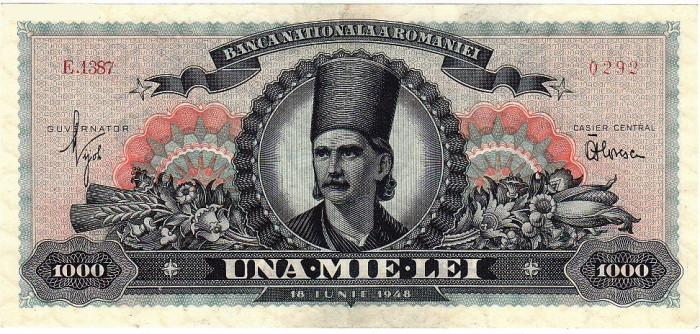 Front of 1000 Romanian lei bill (1948).